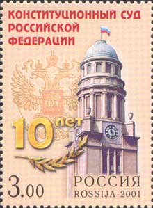 Russian stamp of 2001 representing the building of the Constitutional Court of Russia.